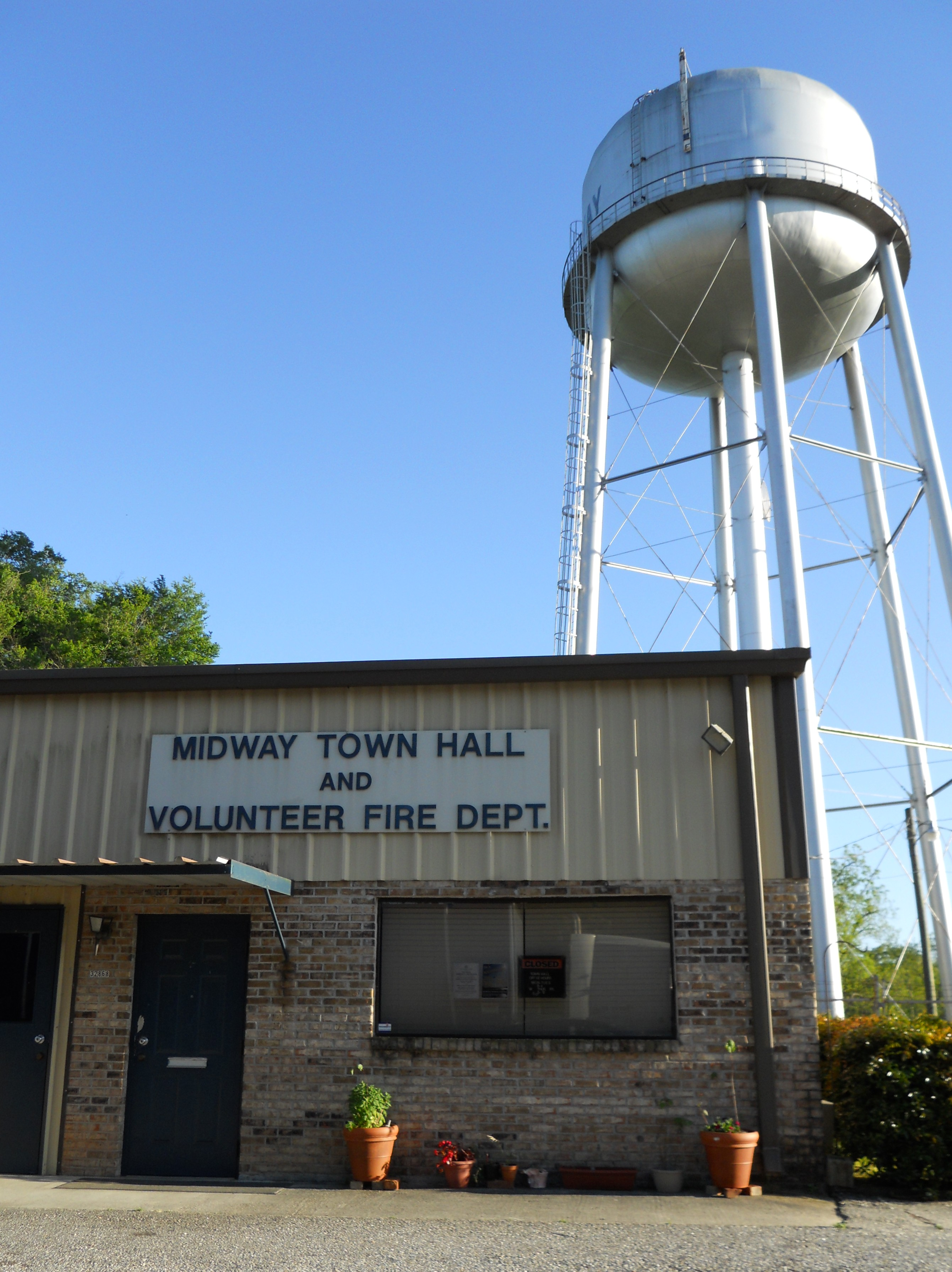 This is a photograph of the town hall and fire department of Midway, Alabama